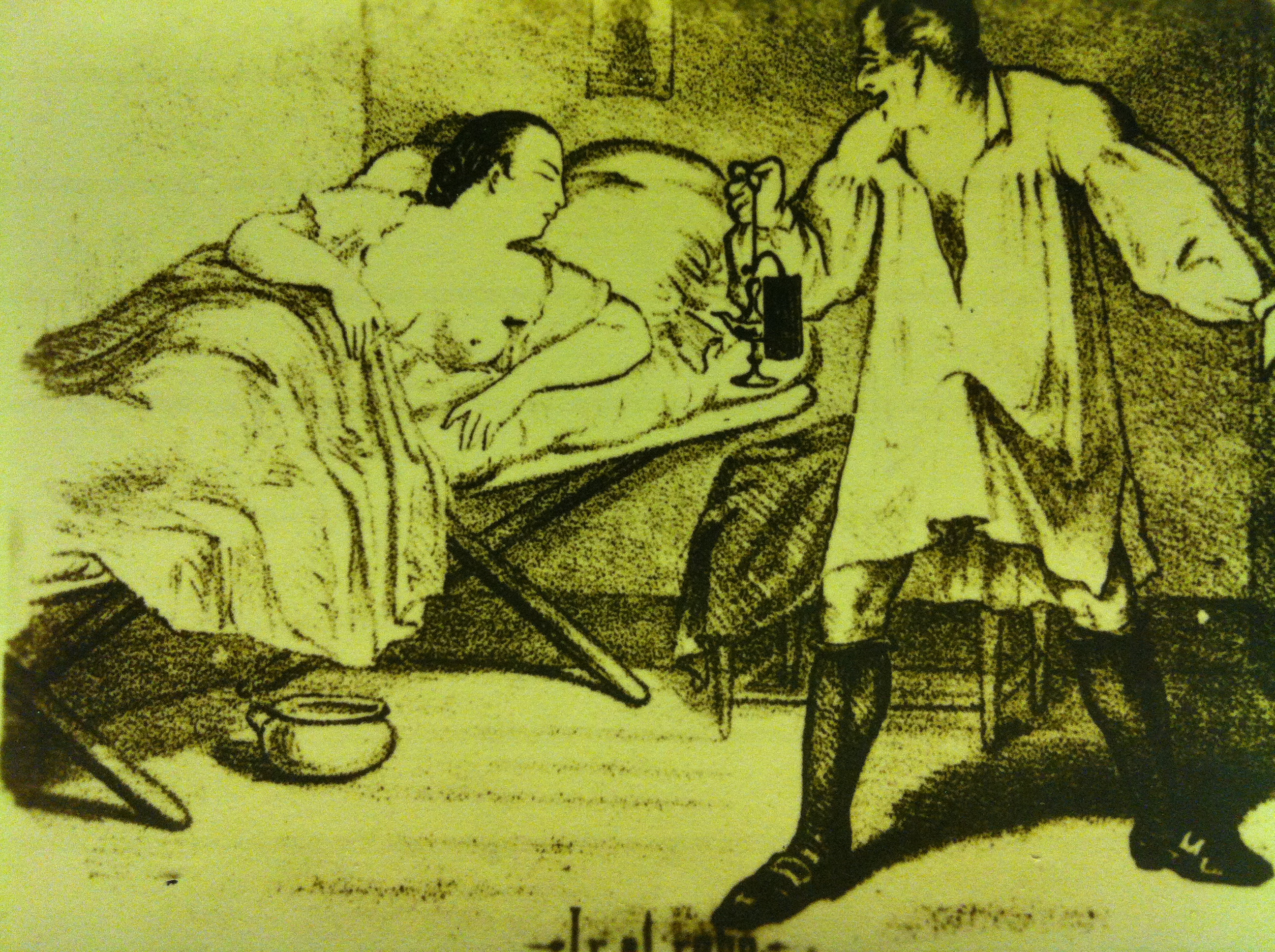 Pictures of an exhibit about The Paral·lel avenue in Barcelona that took place in CCCB cultural center between october 2012 and feb 2013. El Paral·lel emerges from the project to extend the city designed by Ildefons Cerdà. From its birth, a series of contradictory urban planning regulations facilitated the appearance of ephemeral buildings and the conversion of this street into a dense area of leisure and entertainment. The result was a leisure district for the masses, perfectly comparable to those existing in other major European urban agglomerations at that time, but that immediately became a genuine cultural expression of the social and political conflict that characterised the Barcelona of the early 20th century. El Paral·lel generated shows with perfectly differentiated contents and formats, made up by the audience and the artists. This exhibition will explain, therefore, why a new entertainment area emerged in the city, leading the weight of the theatrical axis to move from the Plaça Catalunya-Passeig de Gràcia area to the Nou de la Rambla-Paral·lel area.